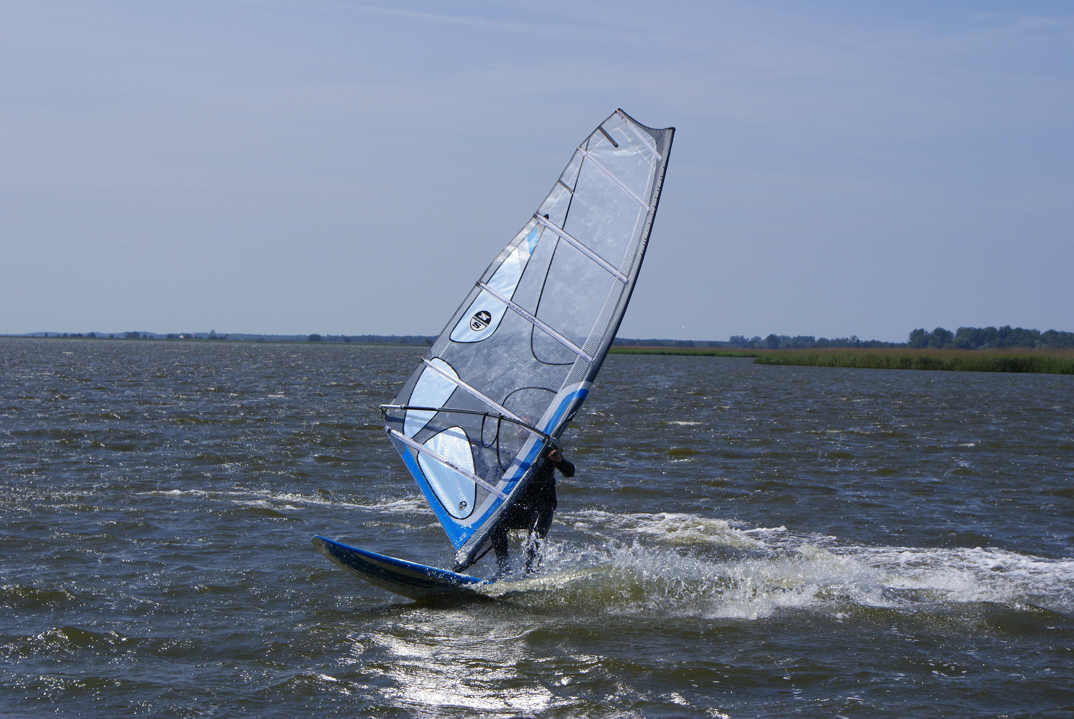 Windsurfer on the Resko Przymorskie, Poland